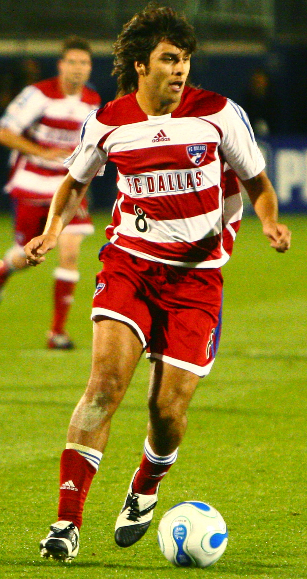 Juan moves with the ball. Edited from original form.